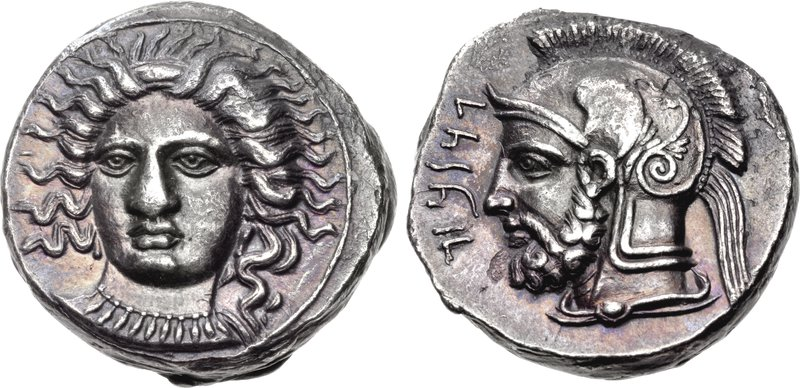 CILICIA, Tarsos. Pharnabazos. Persian military commander, 380-374/3 BC. AR Stater (20mm, 10.38 g, 10h). Struck circa 380-379 BC. Head of Arethusa facing slightly left / Helmeted and bearded male head left.